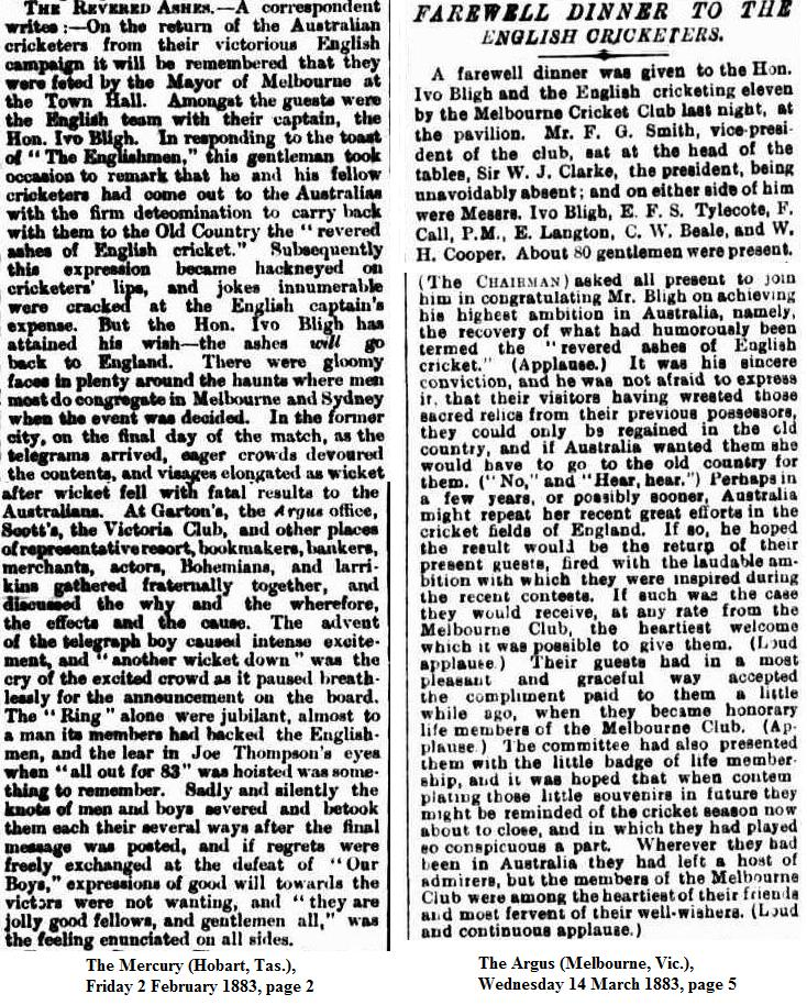 Mentions of the Ashes in two newspapers (sections of larger articles), the left one from 2 Feb 1883, shortly after England won the third test on 30 Jan. The right at a farewell dinner for the English cricketers on 14 March. National Library Australian newspapers digitisation program which are pre-1955 so no copyright: "The service includes newspapers published in each state and territory from the 1800s to the mid-1950s, when copyright applies."